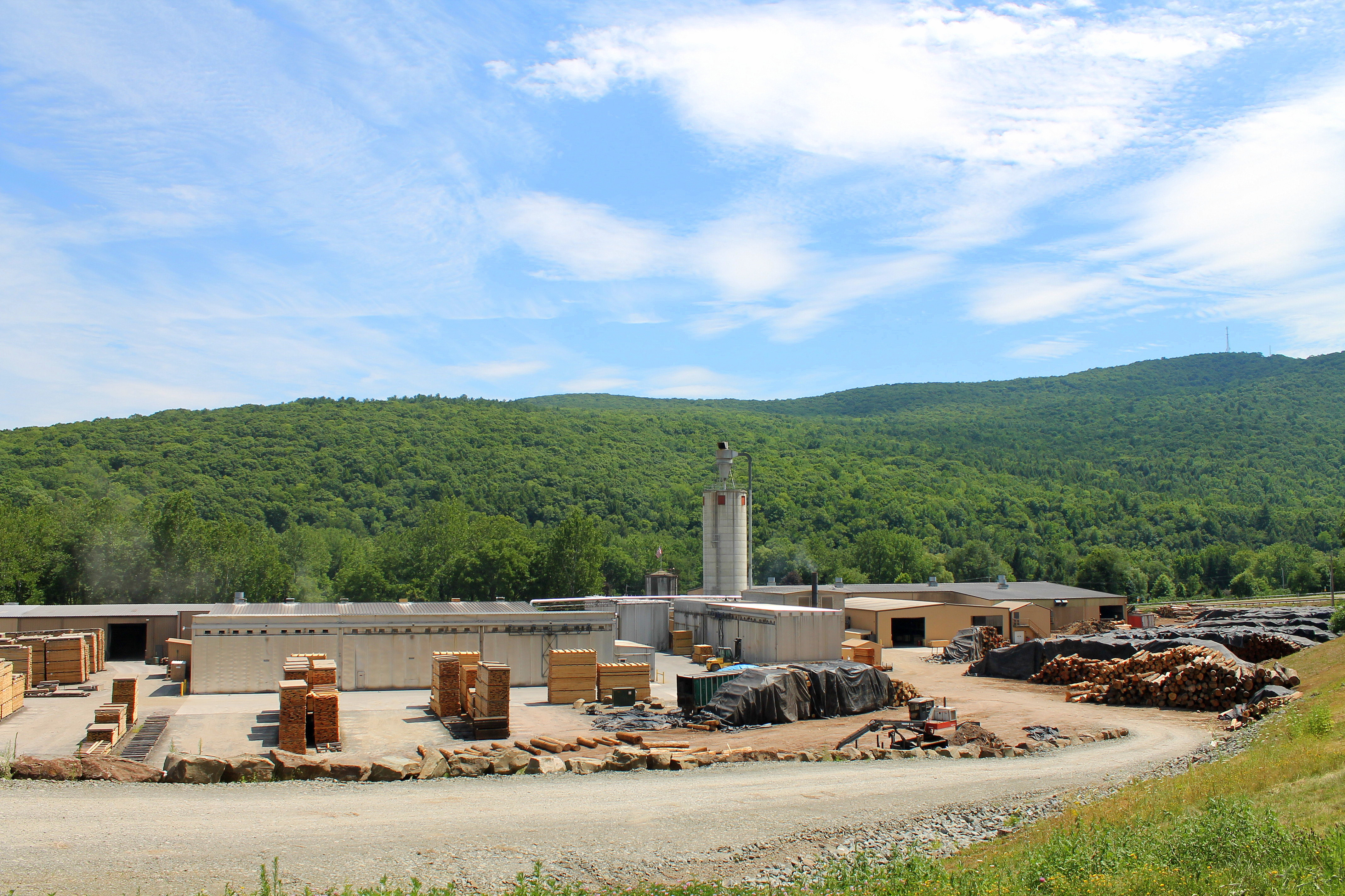 Tunkhannock Township, Wyoming County, Pennsylvania. In the foreground, there is a wood-related industry; in the background Osterhout Mountain rises up.